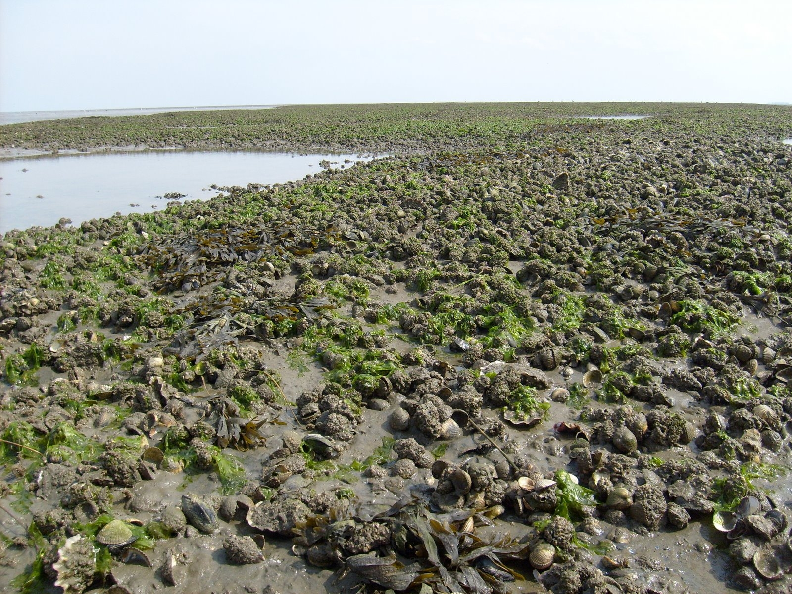 Picture taken in the Waddensea near the island of Schiermonnikoog (Netherlands) with Pacific oysters, Blue mussels and Cockles